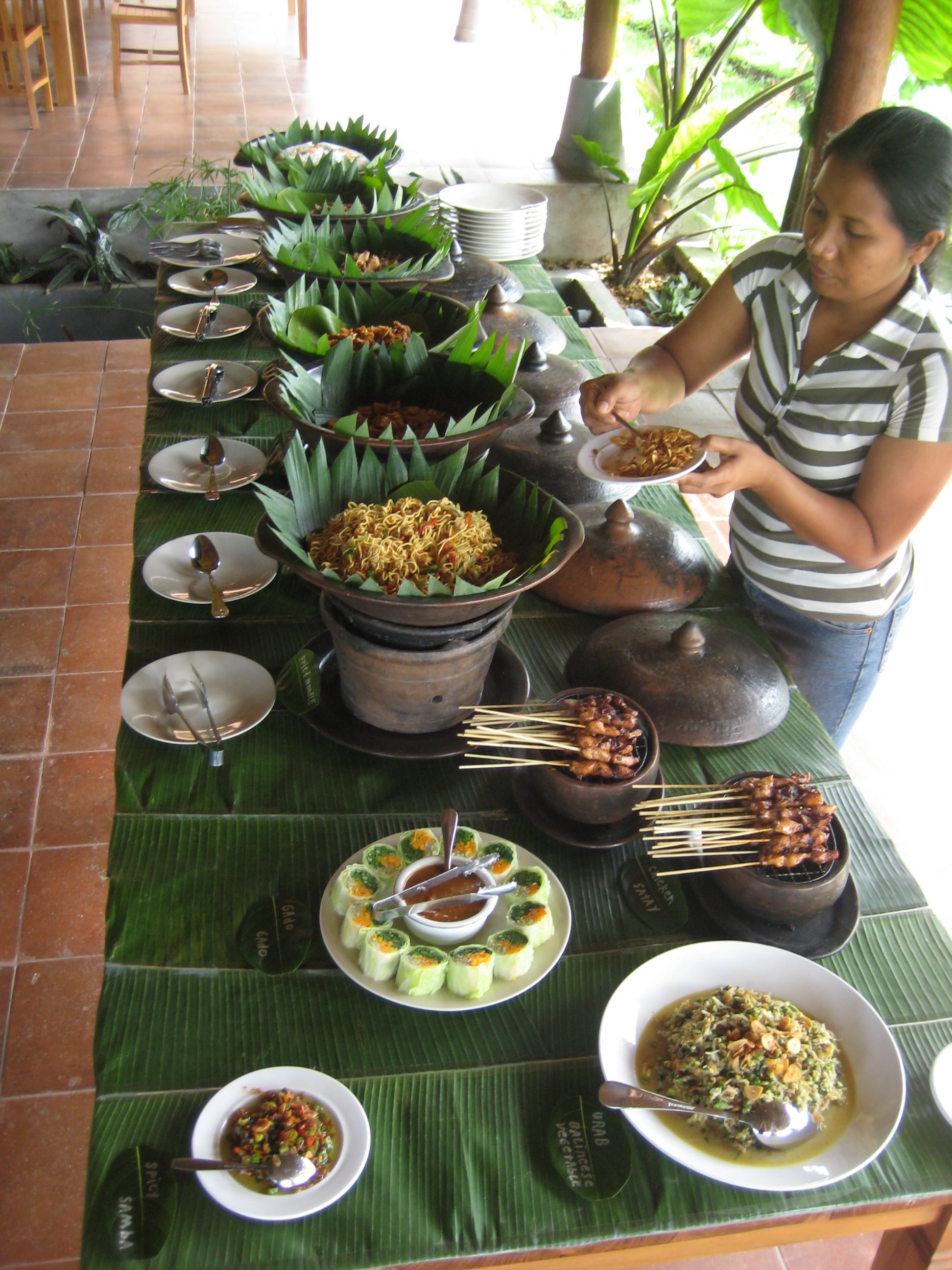 Nasi campur: fried rice, combined with all different kinds of Indonesian dishes